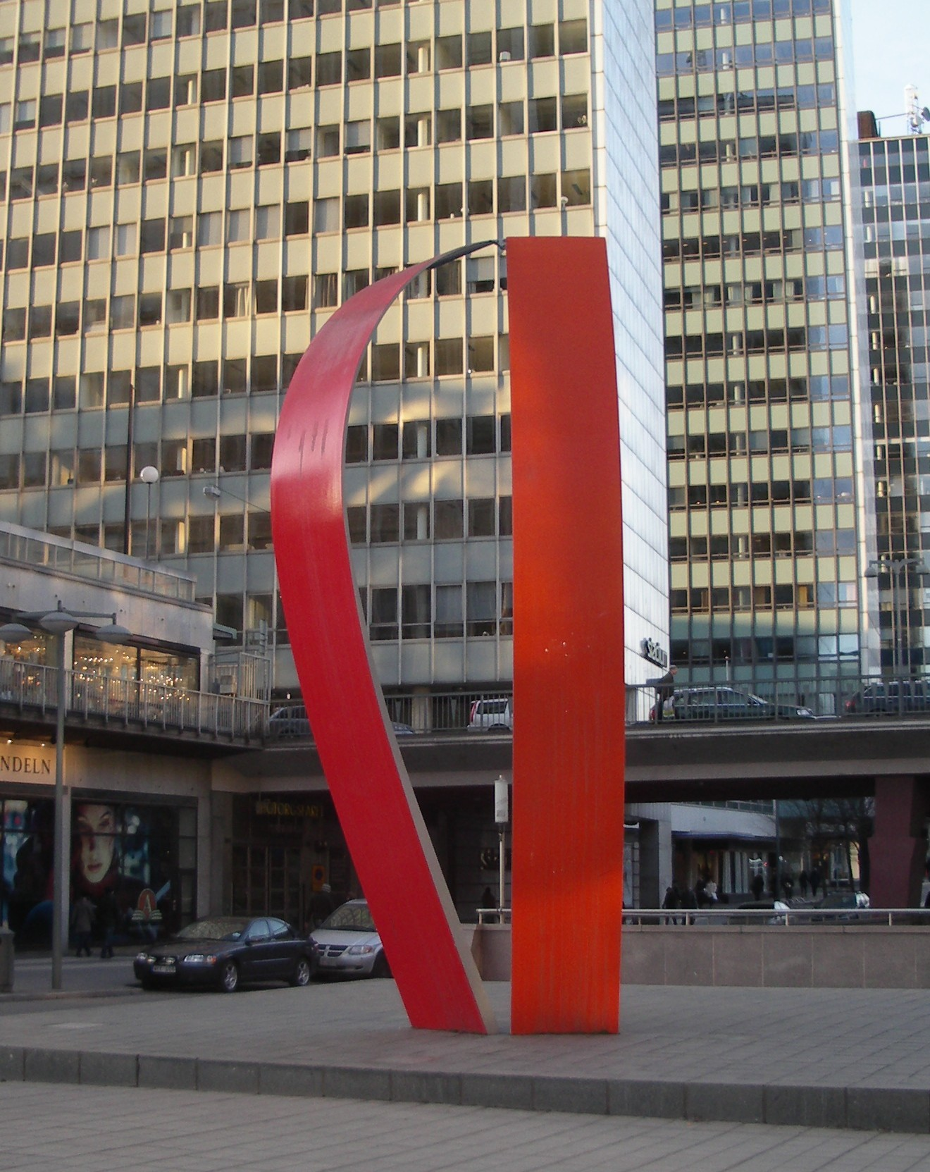 Gert Marcus´ Di-eder (1998), steel, Stockholm, Sweden